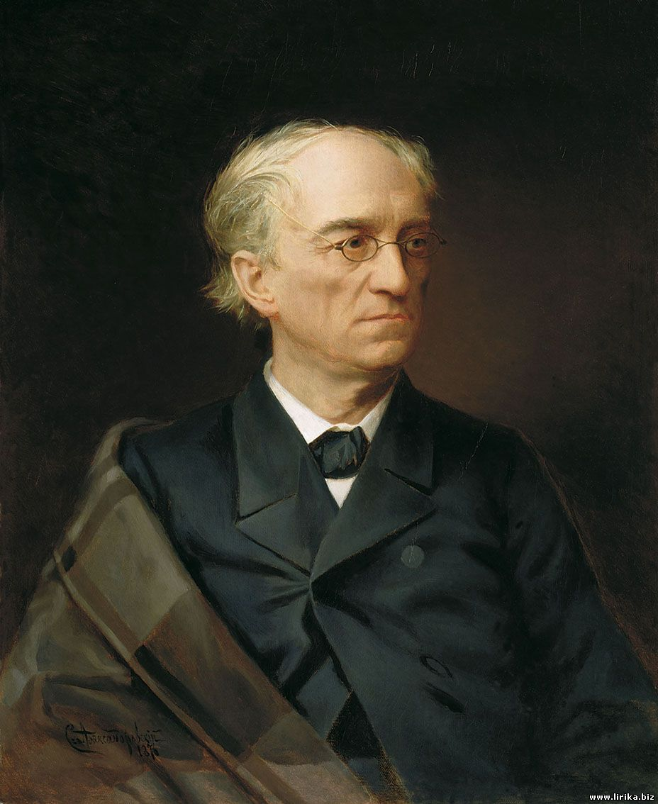 Russian poet Fyodor Ivanovich Tyutchev